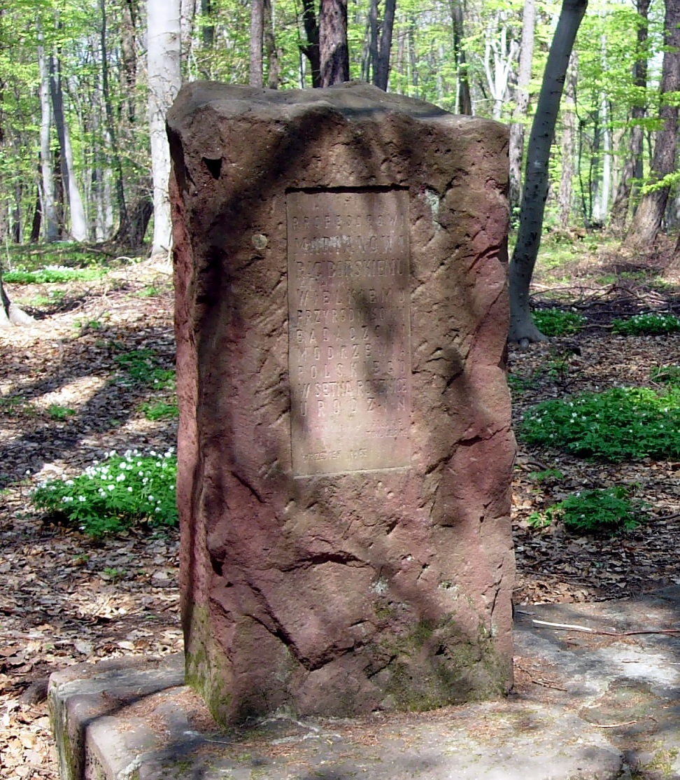 The monument on the top of Chełmowa in Świętokrzyskie Mountains